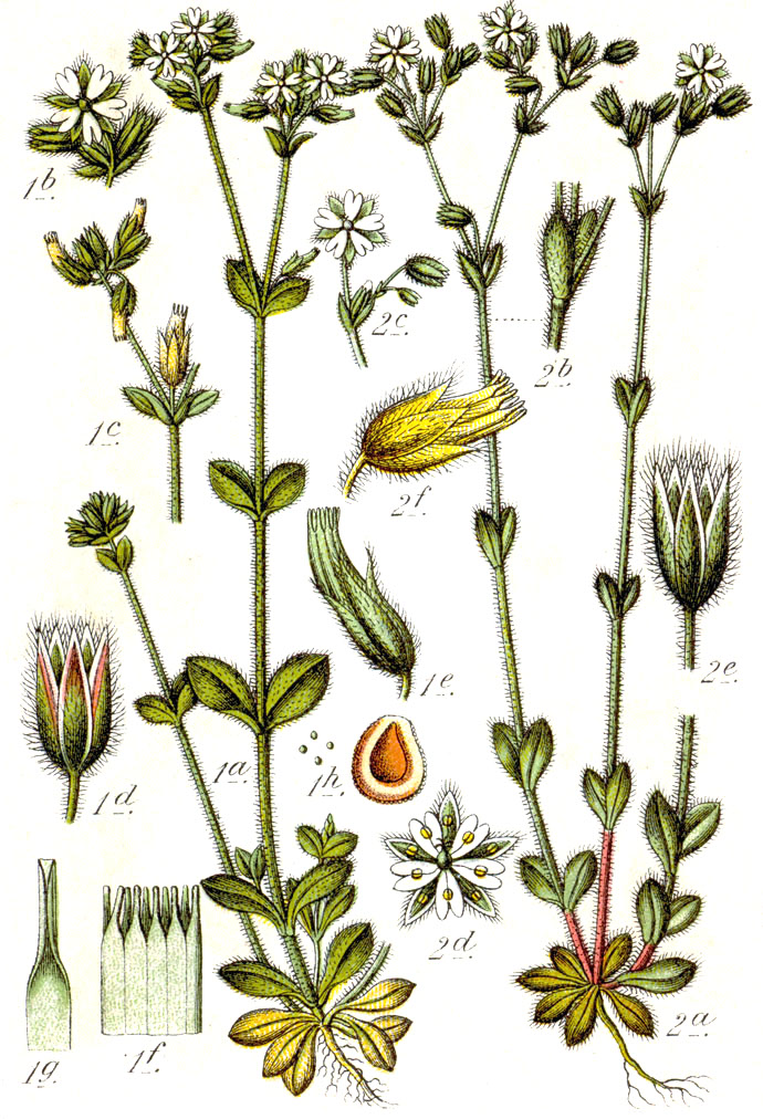 1. Cerastium glomeratum Thuill., syn. Alsine glomerata (Thuill.) E.H.L.Krause 2. Cerastium brachypetalum Desp. ex Pers., syn. Alsine brachypetala (Desp. ex Pers.) E.H.L.Krause Original Caption 1. Geknäuelte Miere, Alsine glomerata 2. Schlanke Miere, A. brachypetala